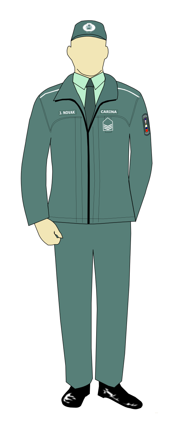 The Uniform of Slovenian Customs Service. Based on descriptions in official journals: Uradni list 31/10 (2010). Uredba o barvi in oznakah službene obleke v carinski službi. Pages 4088- 4099. Uradni list 62/10 (2010). Pravilnik o službeni obleki delavcev carinske službe. Pages 0365-9371.